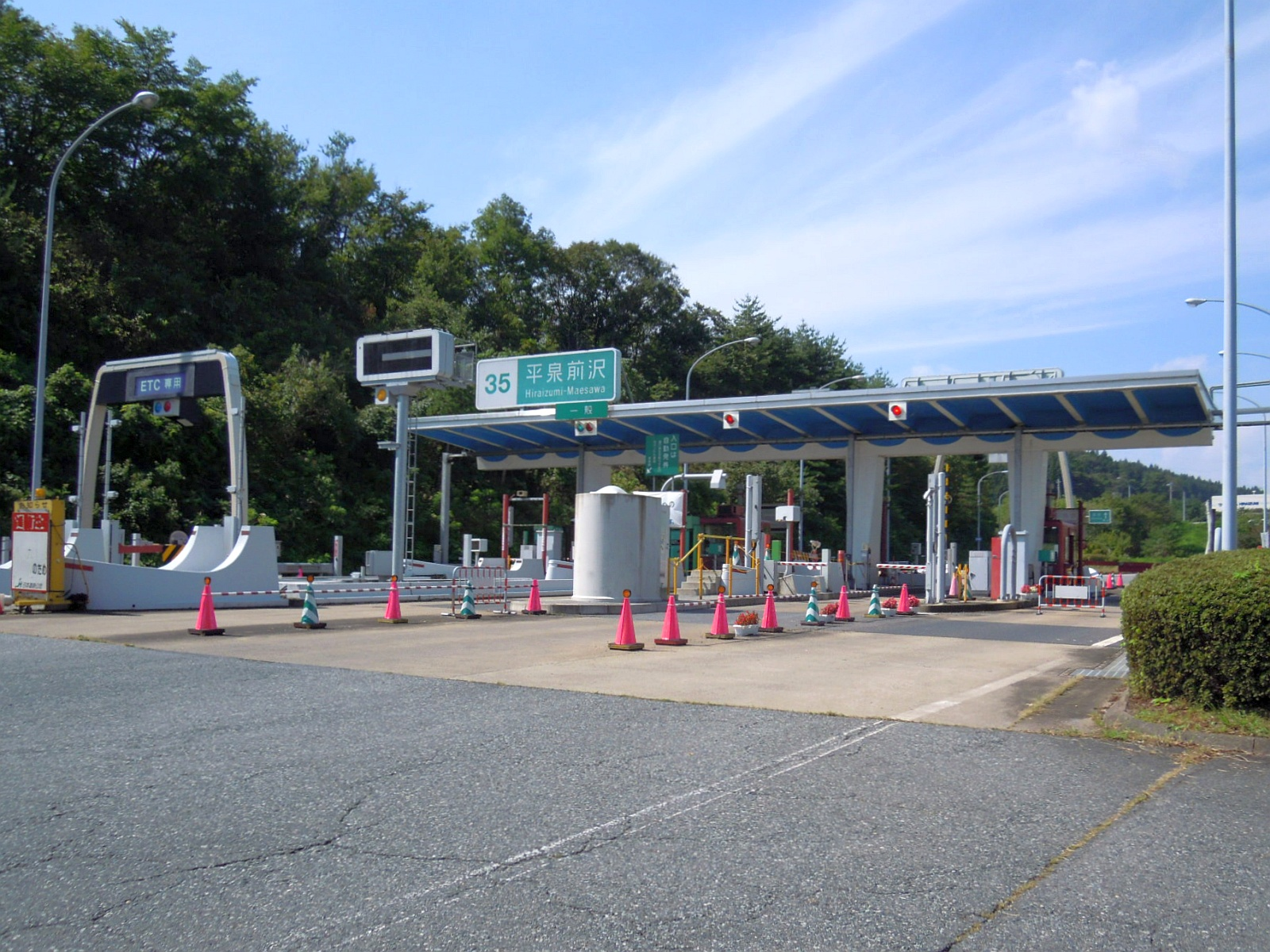 This Interchange, Hiraizumi-Maesawa Interchange, is on Tohoku Expressway, in Hiraizumi Town, Iwate Prefecture, Japan.